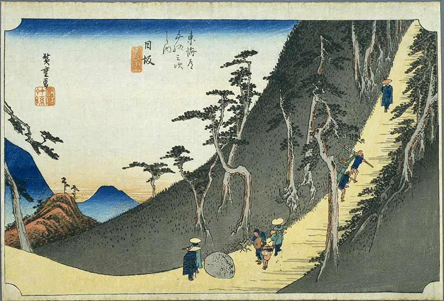 Nissaka on the Tokaido, ukiyo-e prints by Hiroshige